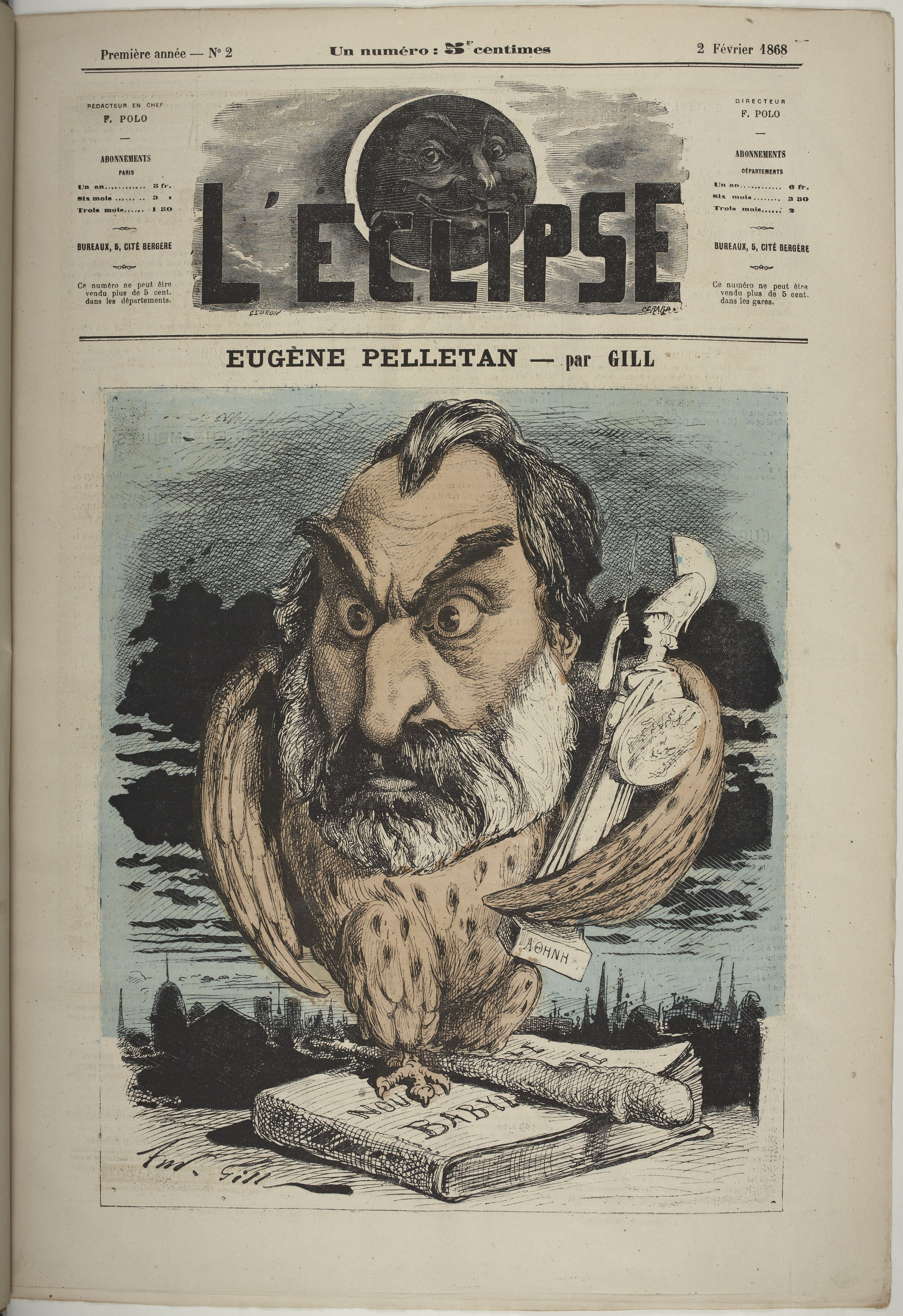 Caricature of Eugène Pelletan Cover of L'Eclipse 2 February 1868 Hand-colored Engraving 12"w x 18"h The label on the statue reads Αθηνη, that is, the goddess "Athena"; the partially obscured title of the book beneath his feet presumably reads Nouvelle Babylogne, that is, "New Babylon".